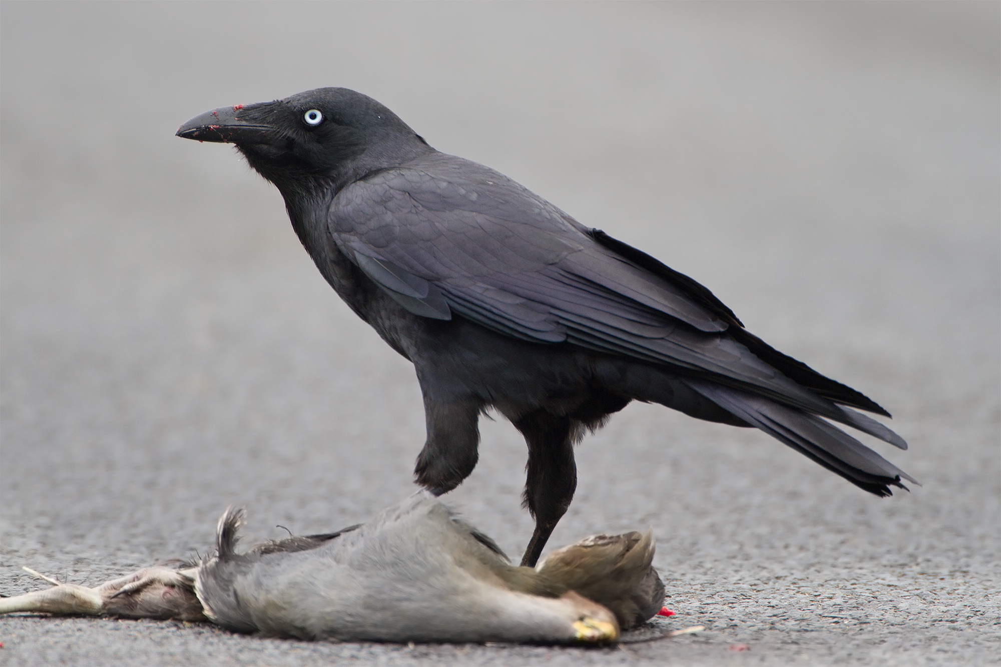 Forest Raven (Corvus tasmanicus) eating the remains of a Tasmanian Nativehen (Gallinula mortierii) after it was hit by a car, Collinsvale, Tasmania, Australia.